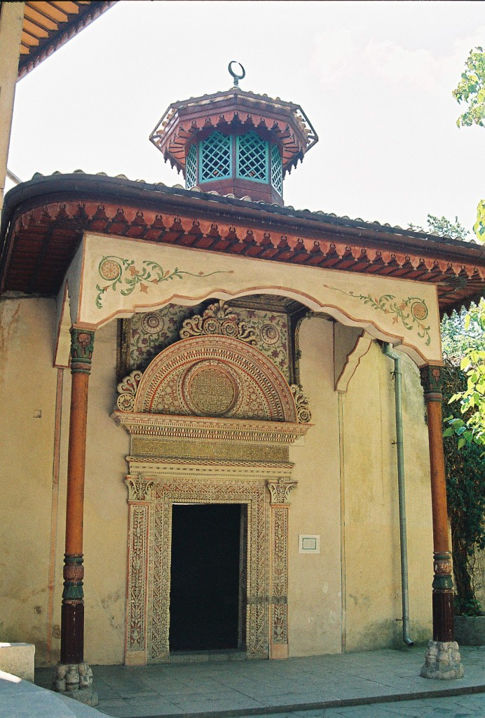 Iron Gate in the Ambassador's Courtyard of Hansaray in Bakhchisaray, Crimea.